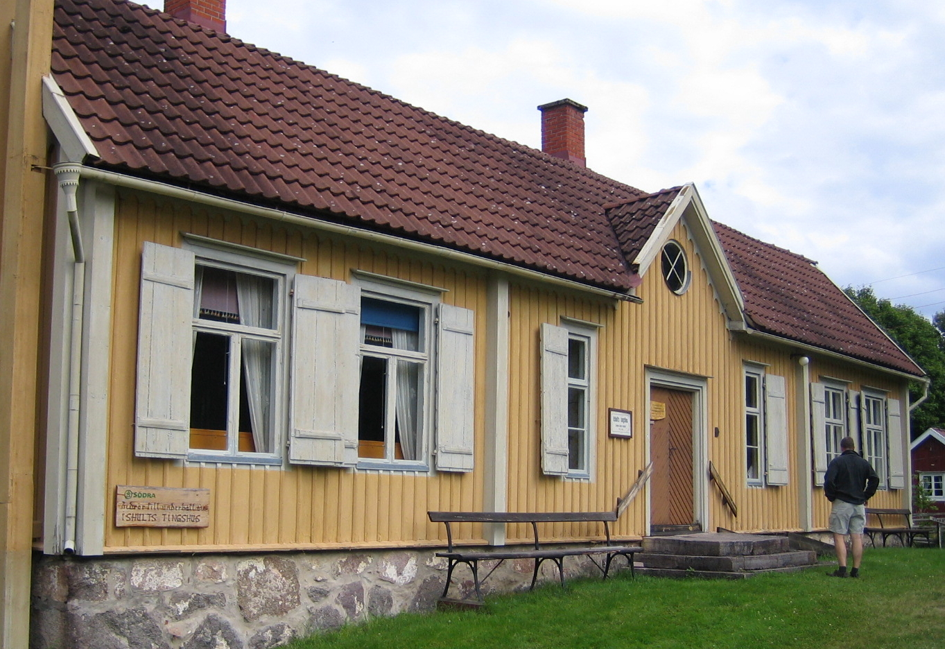 The courthouse of Ishult, Småland